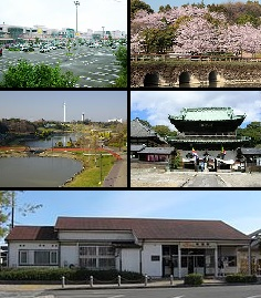 Higashiura montage